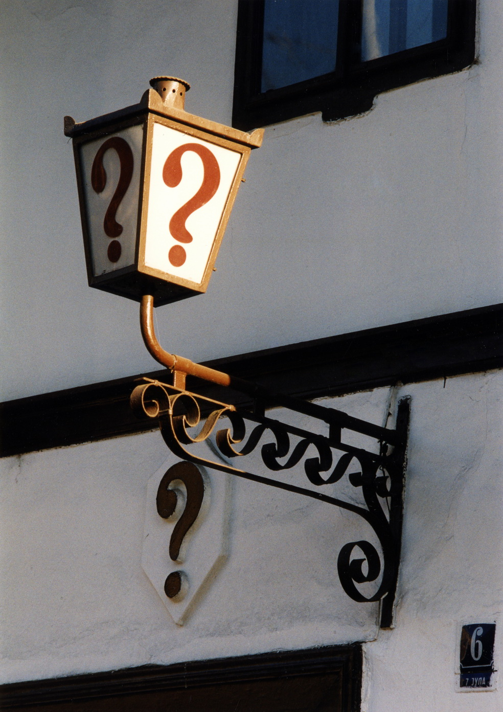 Kafana znak pitanja: Lantern